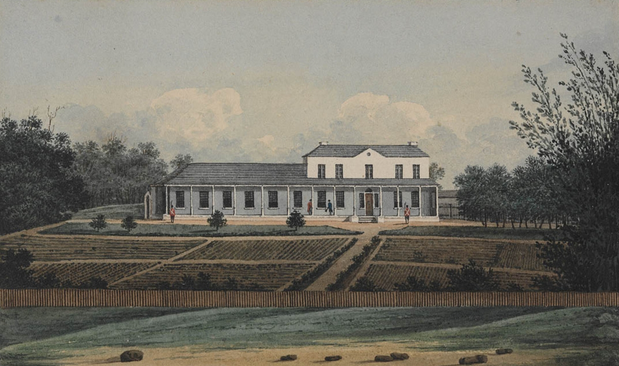 Govenment House, Sydney, watercolour drawing, 9.6 x 16 cm